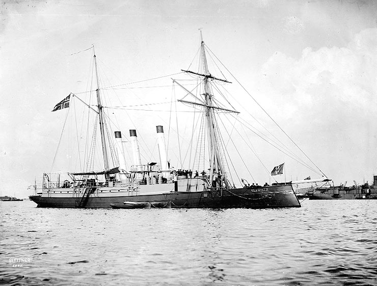 Sleipner (Norwegian Gunboat, 1877) At Kiel, Germany, for ceremonies marking the opening of the Kiel Canal, June 1895. The Swedish coastal defence ship Göta is in the right background.